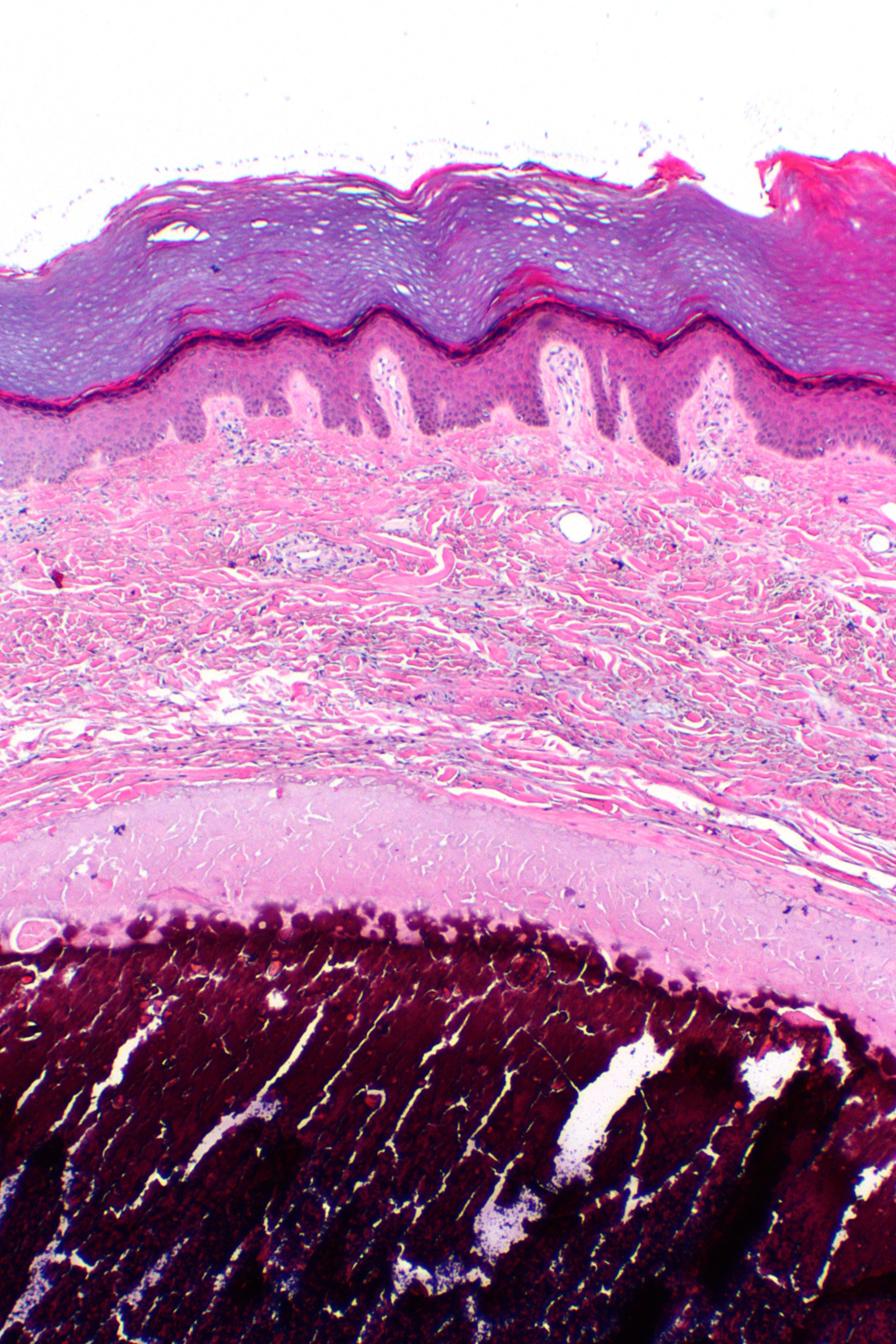 Micrograph of calcinosis cutis. H&E stain. Related images CC - very low mag. CC - low mag. CC - intermed. mag.